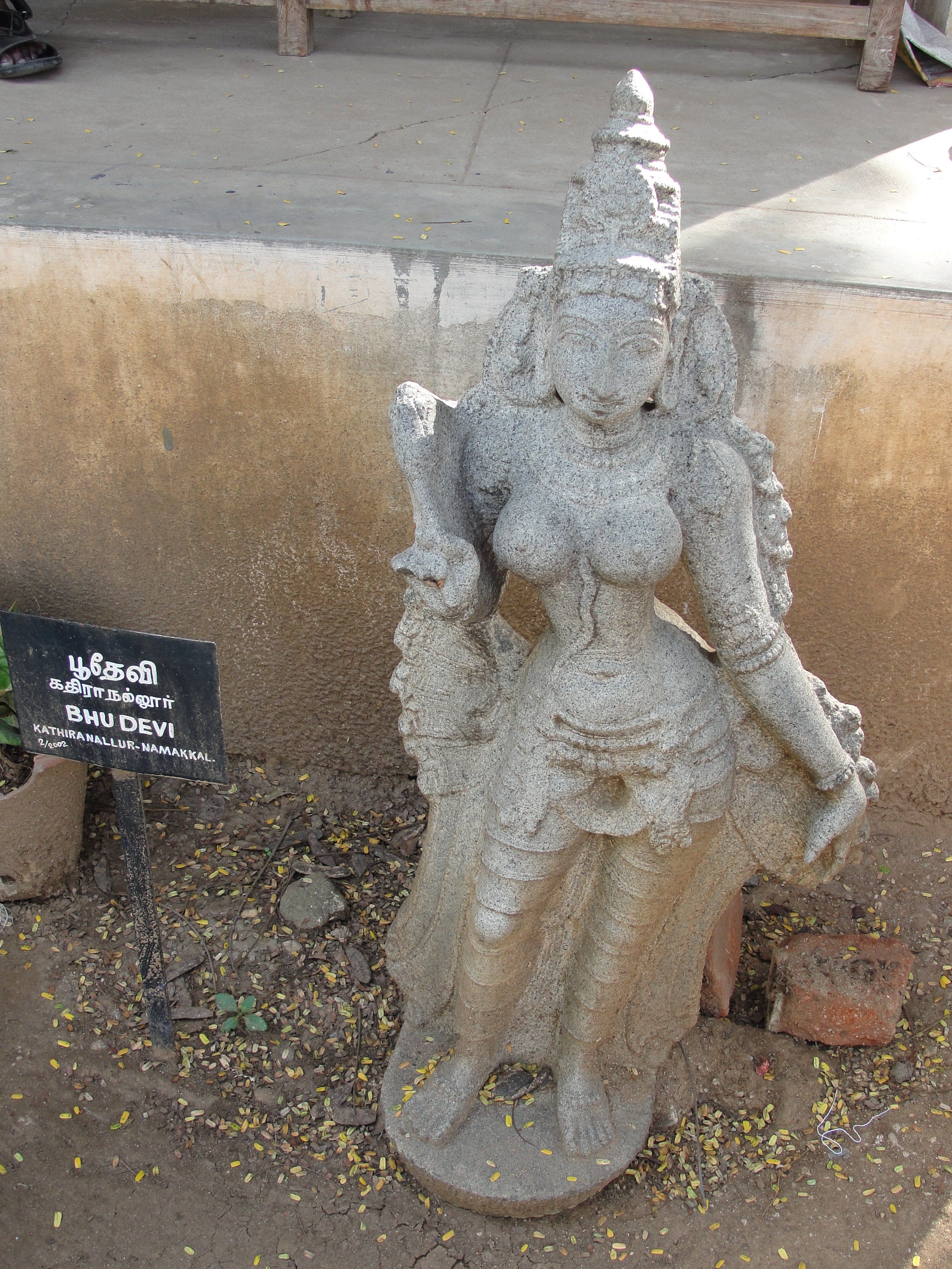 Kathiranallur-Namakkal. An exhibit in Salem district exhibition, Tamil Nadu, India.